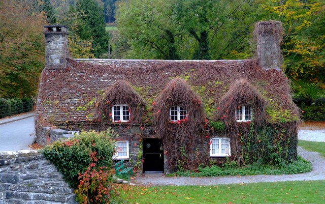 Tu-hwnt-i'r-bont This very pretty old house was built in 1840. It is located on the banks of river River Conwy adjacent to Pont Fawr. In the Summer it is used as a tea room and restaurant